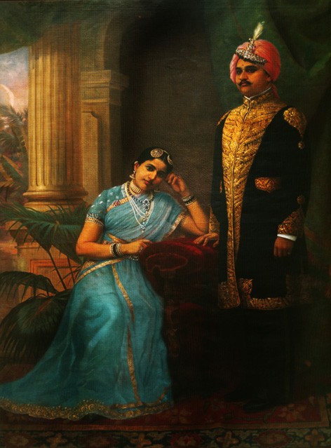 Portrait of Raja and Rani of Kurupam